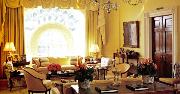 The West Sitting Hall in the White House in 1999